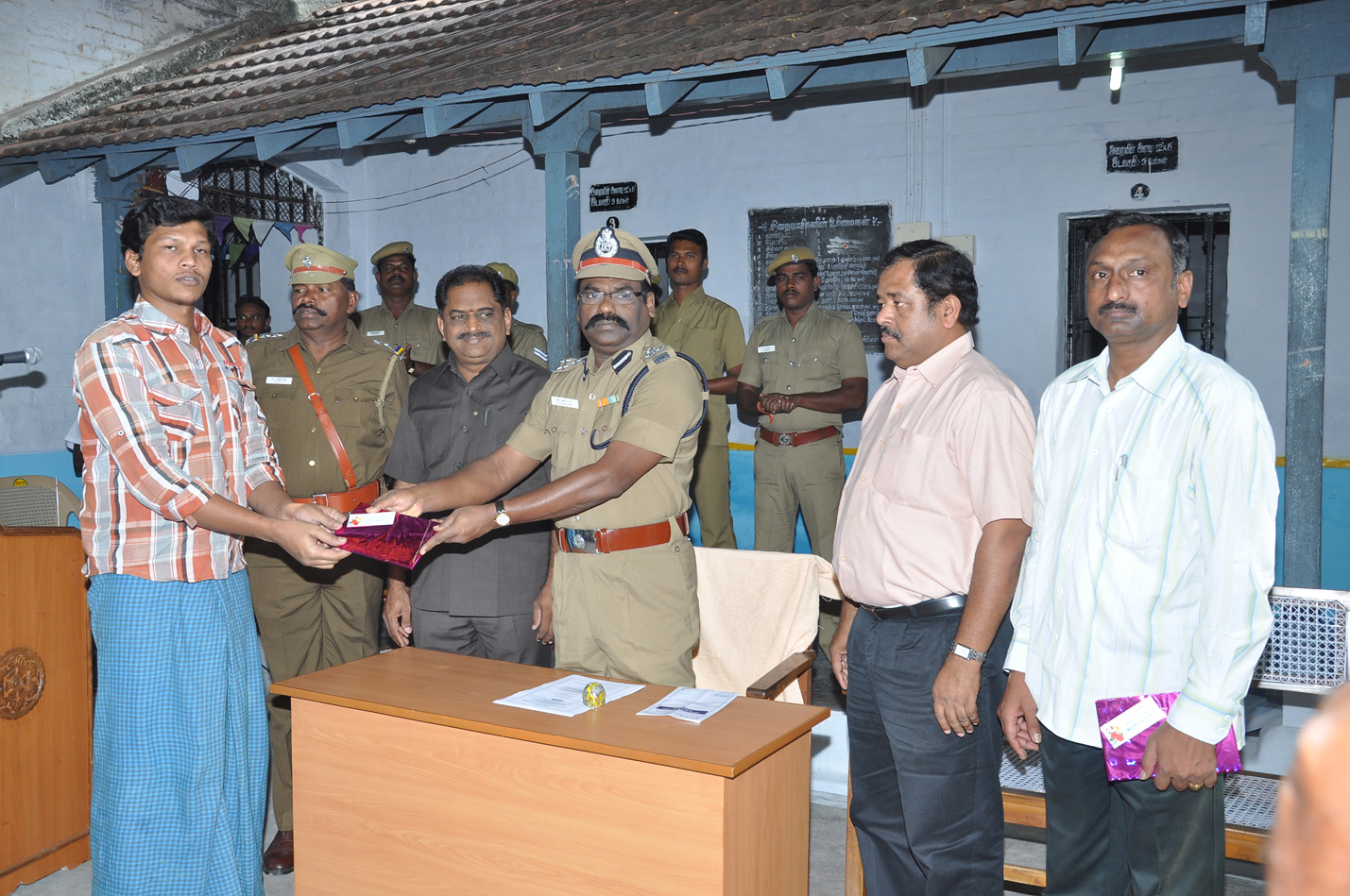 சிறைவாசிகளுக்கான நற்சிந்தனை விழா